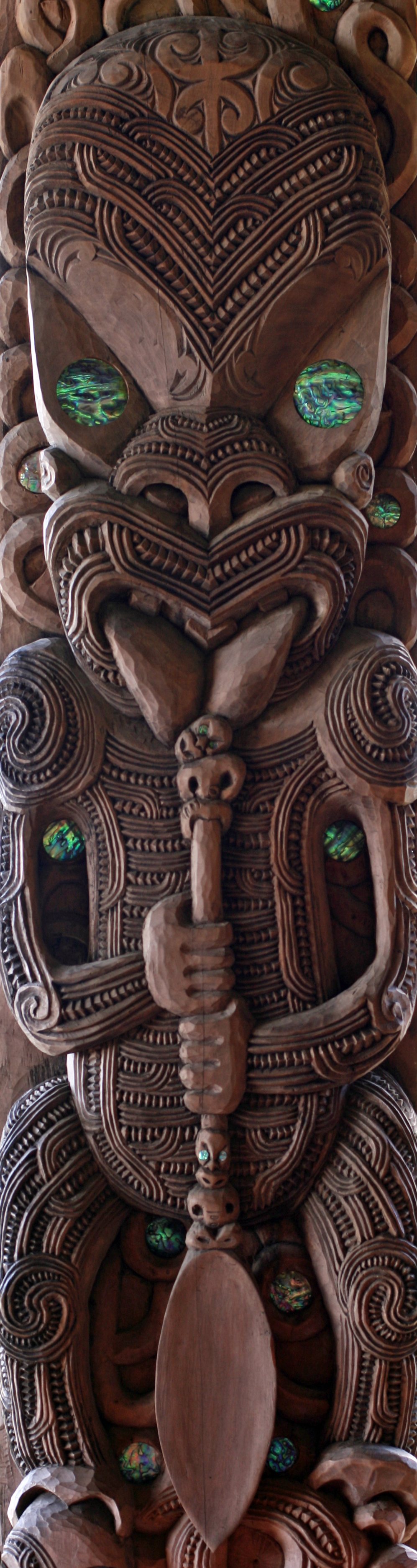 Carving representing Kahungunu, ancestor of the Māori tribe Ngāti Kahungunu. From the canoe house at Waitangi Treaty Grounds, Waitangi, Bay of Islands, New Zealand. Kahungunu is depicted holding a hoe, a canoe paddle, signifying his prowess and exploits as a navigator.